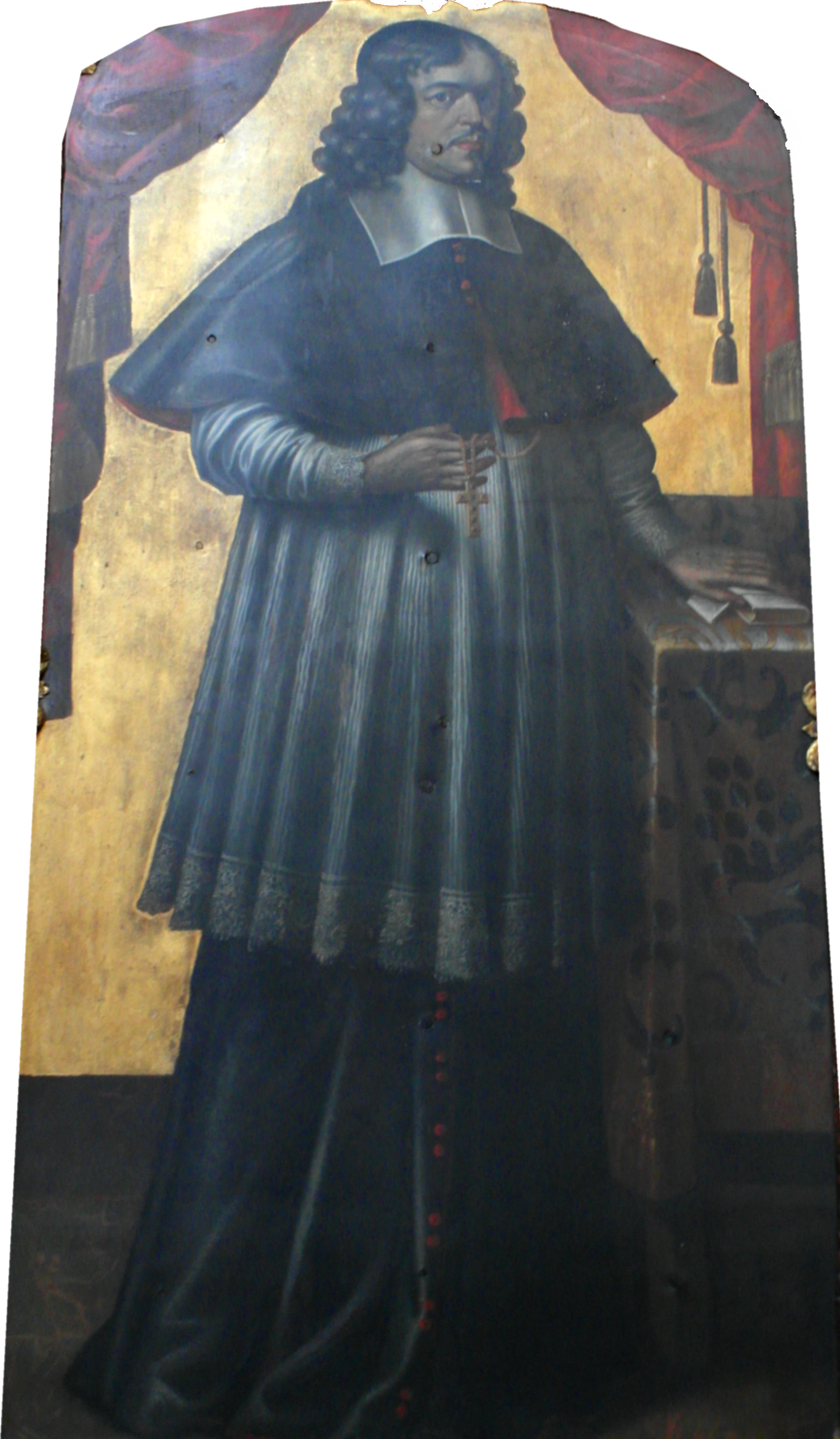 Mikołaj Jan Prażmowski